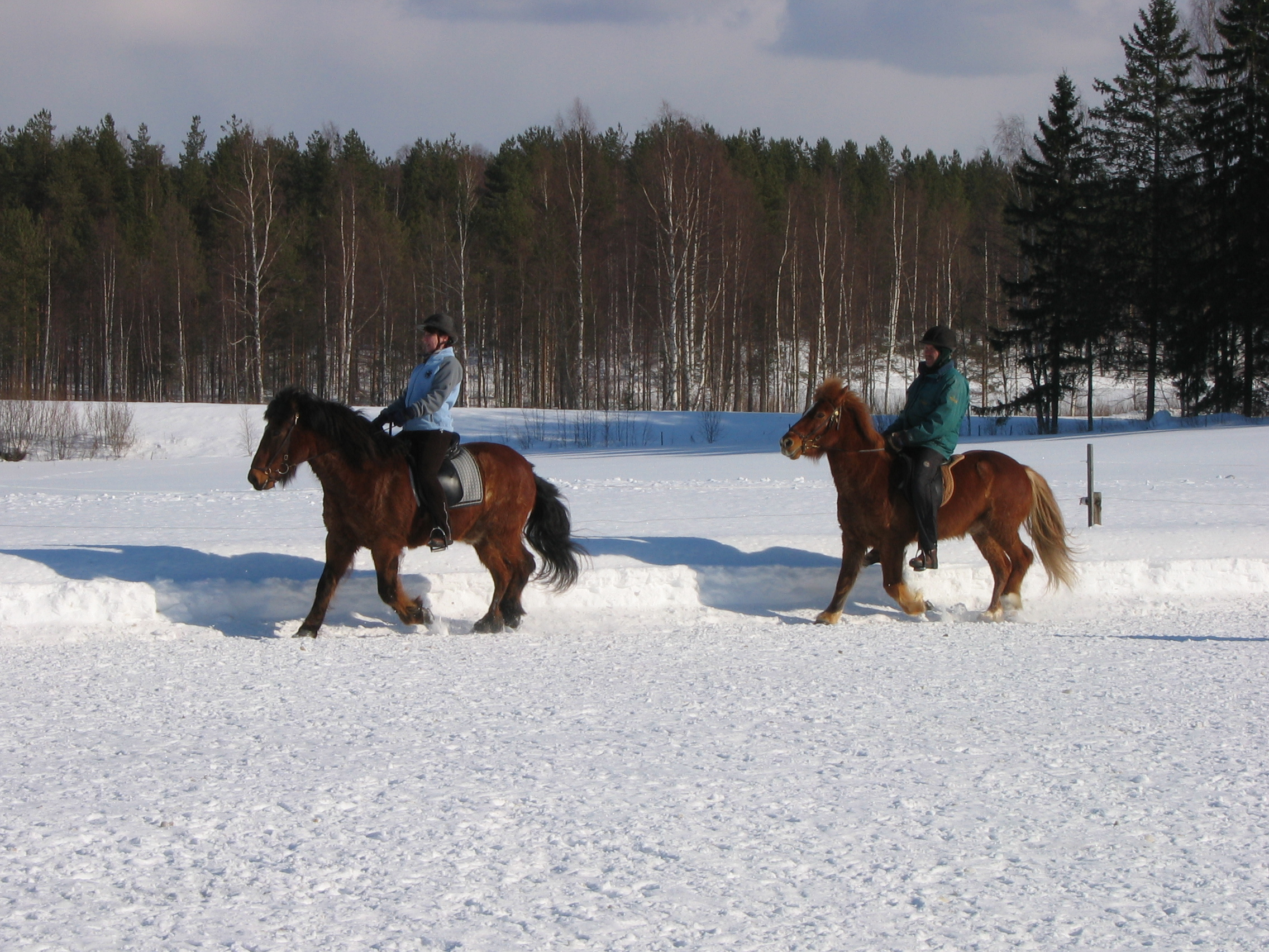 Two Icelandic horses at the tölt in Finland.